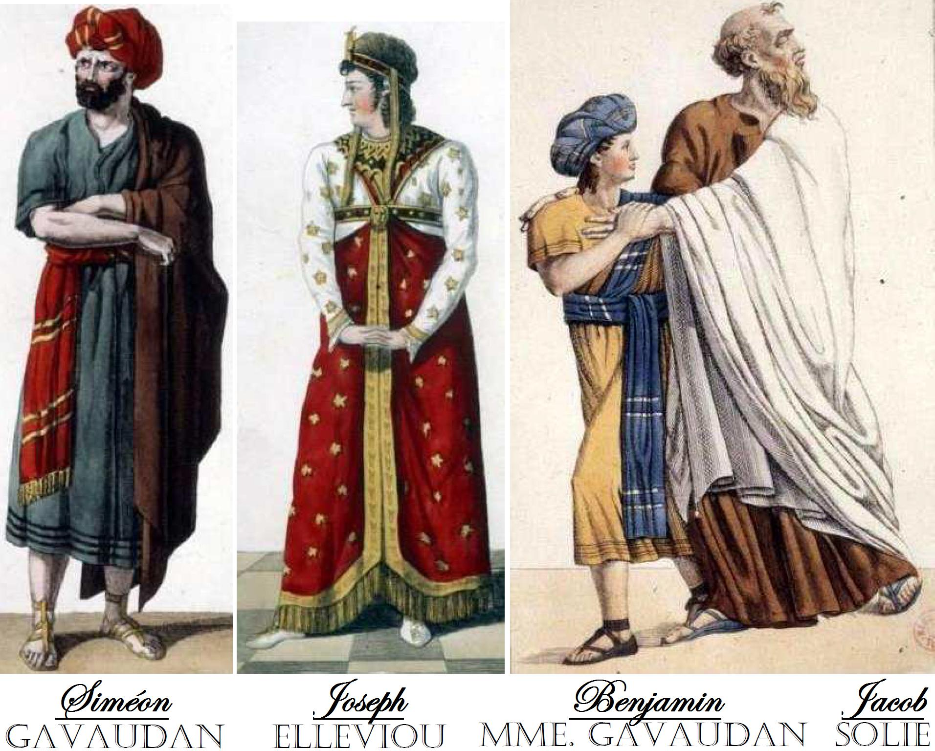 The principal actors, in costume, of the opera Joseph (1807) by Étienne Méhul (1763–1817)